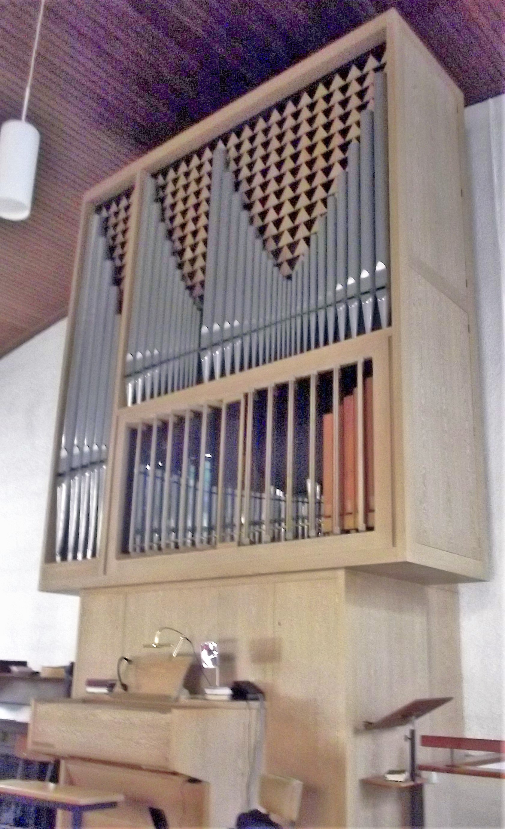 Interior of the roman catholic church in Dörsdorf, Saarland